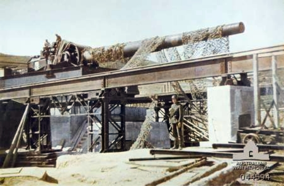 A German very heavy artillery piece. This photo was probably taken during construction of one of the heavy batteries of the Atlantic Wall on the Pas de Calais.